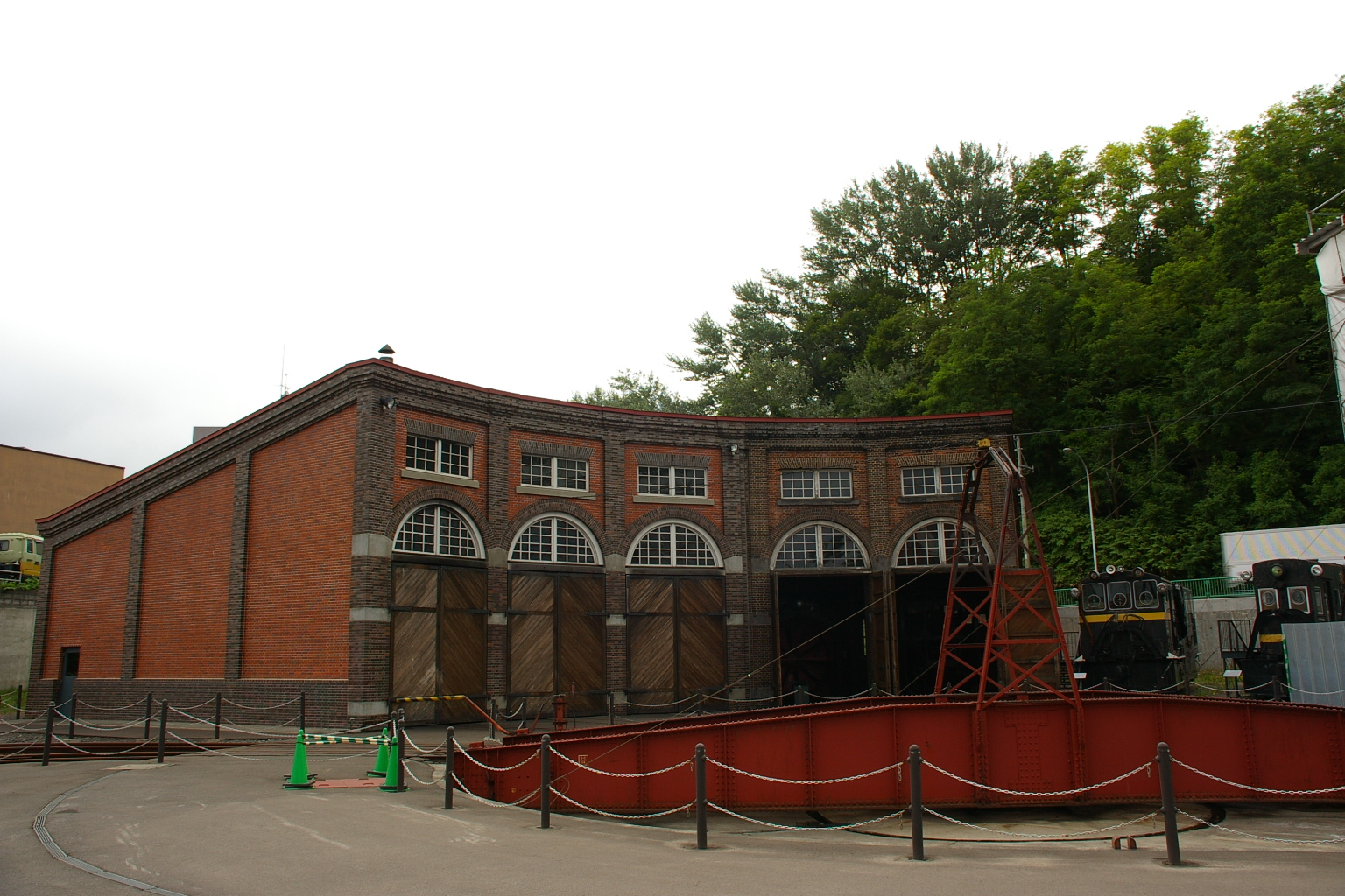 Turntable & Block garage in Otaru synthesis museum.